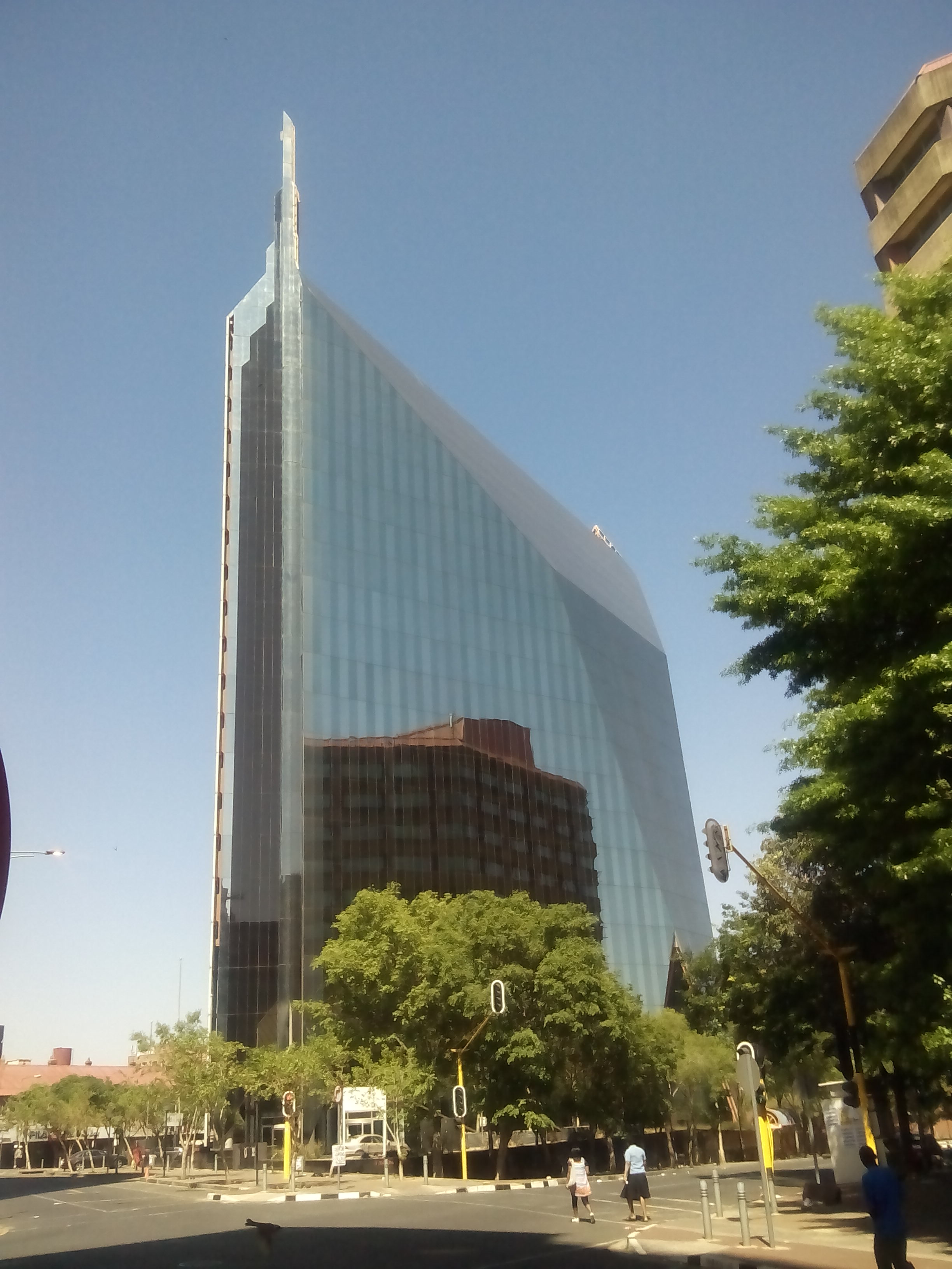 11 Diagonal building in newtown, Johannesburg.